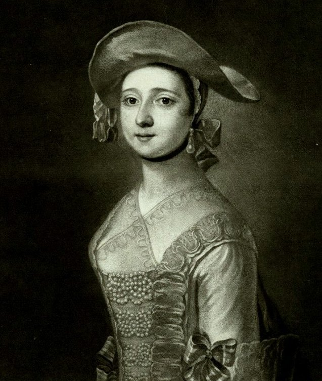 A mezzotint image of Fanny Murray by Henry Robert Morland. Cropped from File:Miss Fanny Murray by Henry Robert Morland.jpg to remove the border and caption.